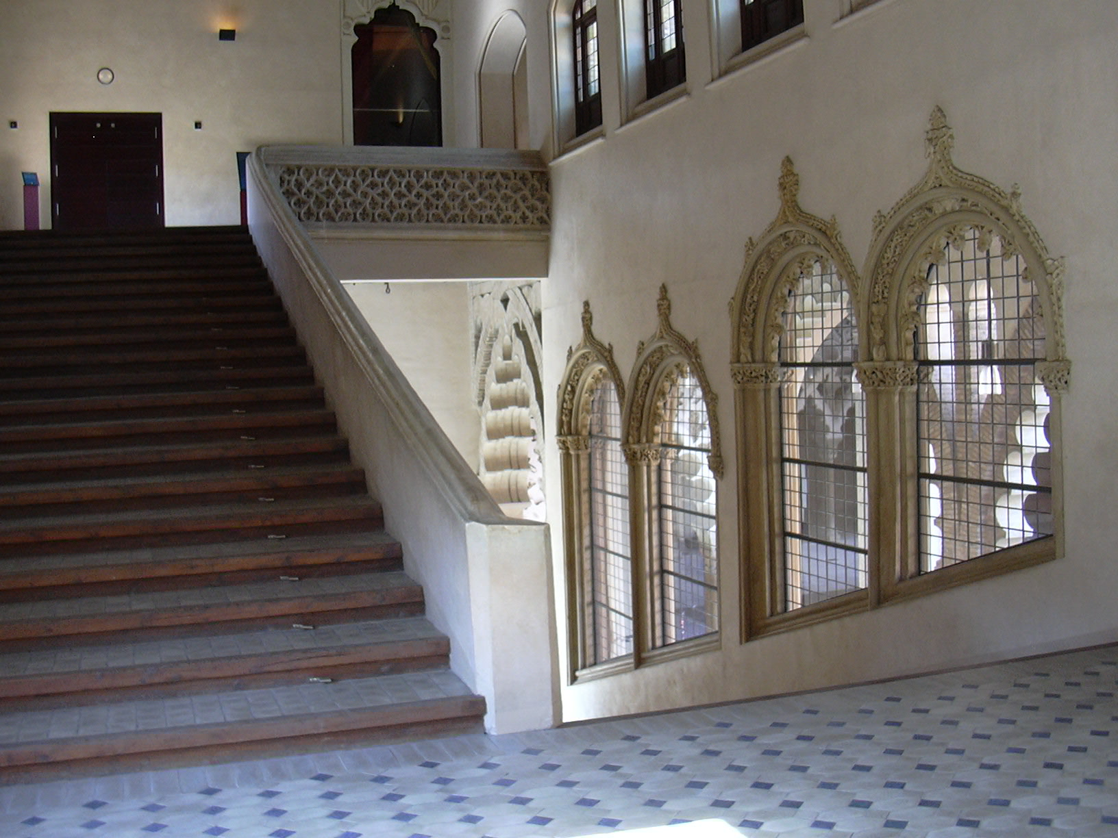 Aljafería Palace, in Zaragoza (Spain)